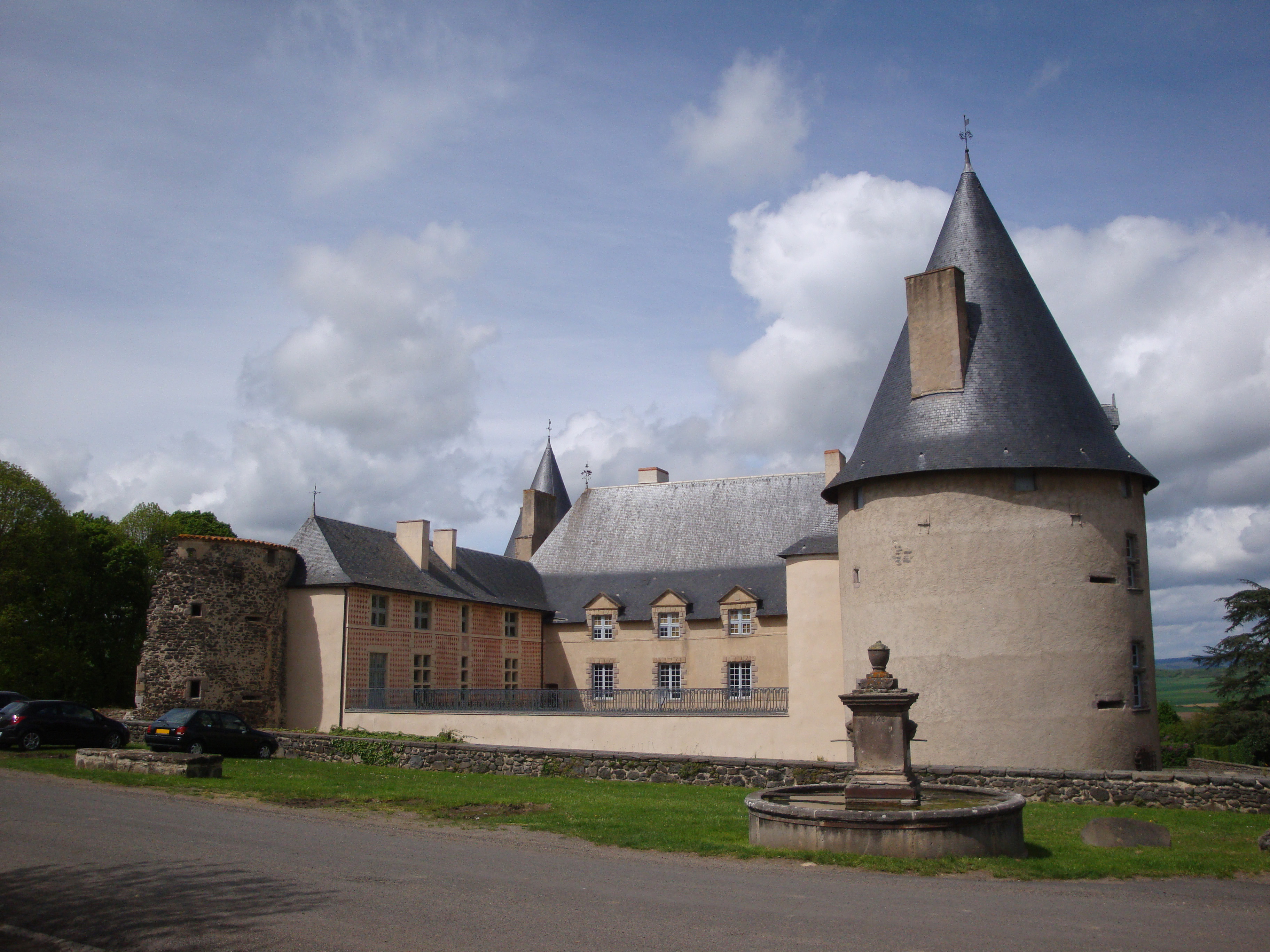 Castle of Villeneuve-Lembron at Villeneuve, Puy-de-Dôme, France